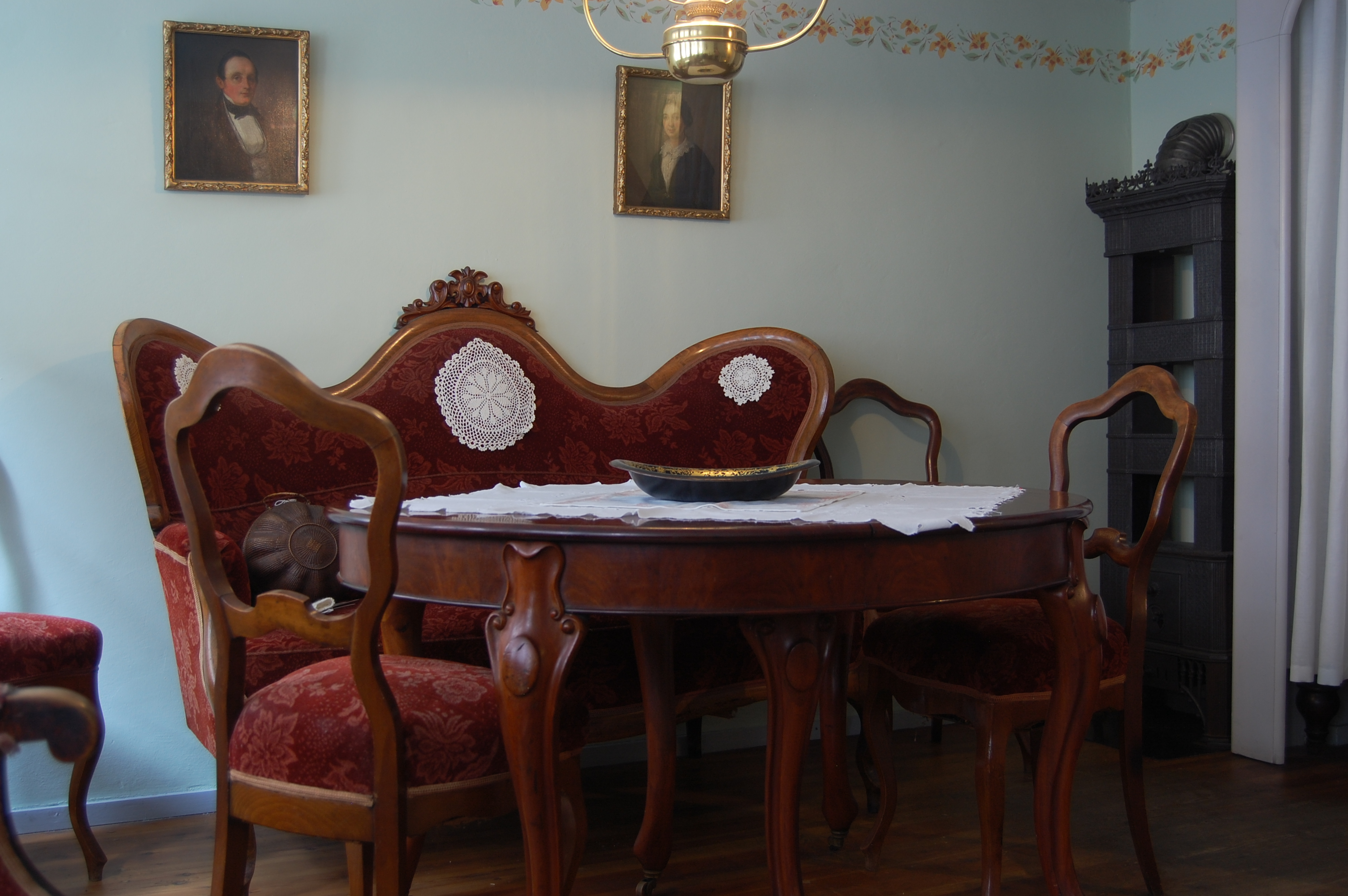 Grocers' Apartments museum (outpost of ), Hamburg, Germany. Interior of first floor bed-sitting room, showing sofa, table and chairs, plus heater This is a photograph of an architectural monument.